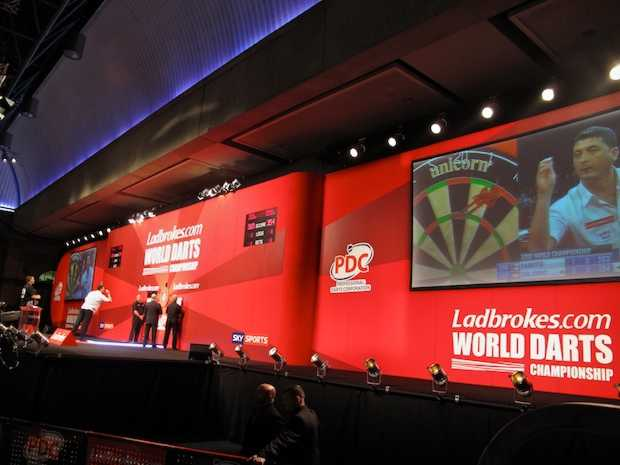 A photo of the stage at the 2009 PDC World Darts Championship during a match between Kevin Painter and Mensur Suljovic.